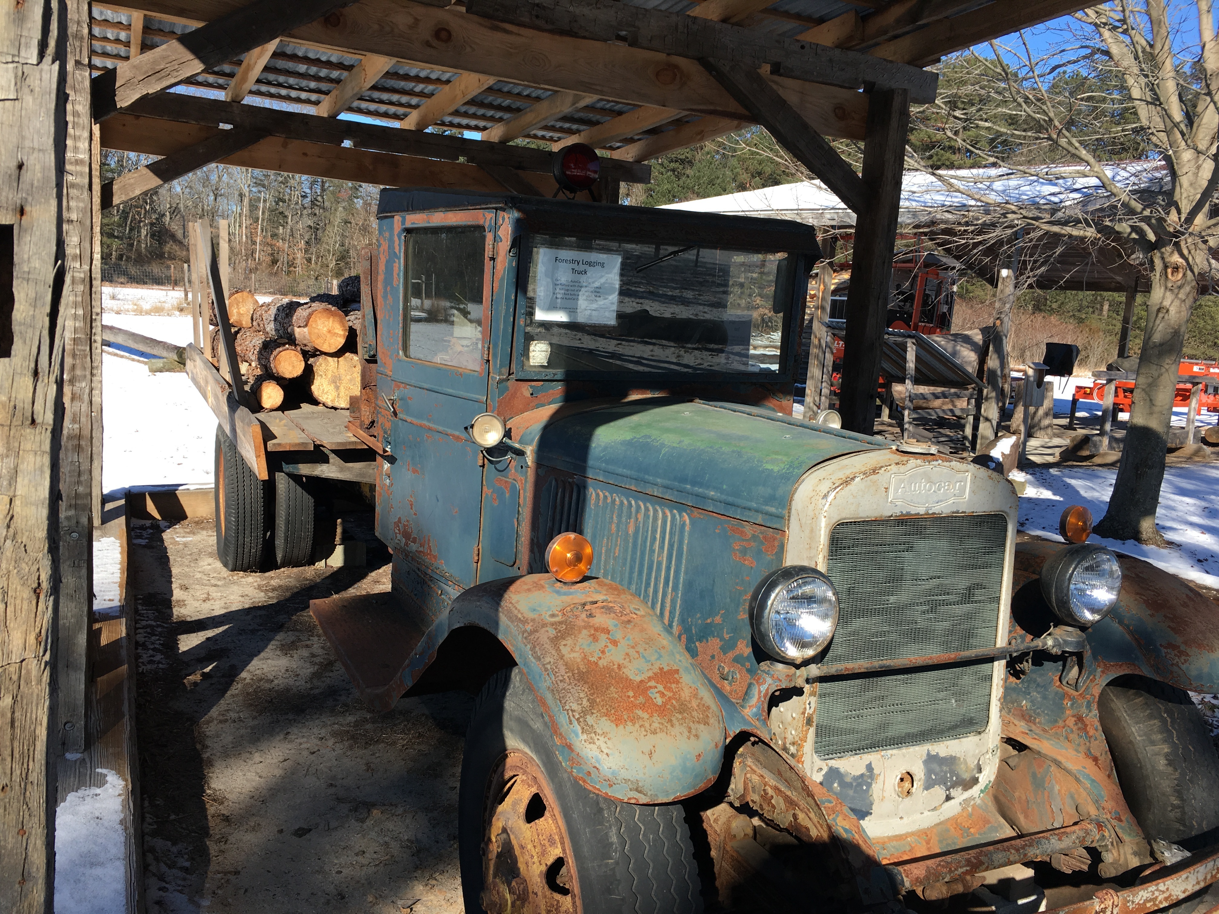 A c. 1930 Autocar Model DA truck used for logging, as seen at the Forest Resource Education Center in Jackson, New Jersey. It has a chain-driven winch to pull logs out of the woods, which are then cut into segments on the flatbed.